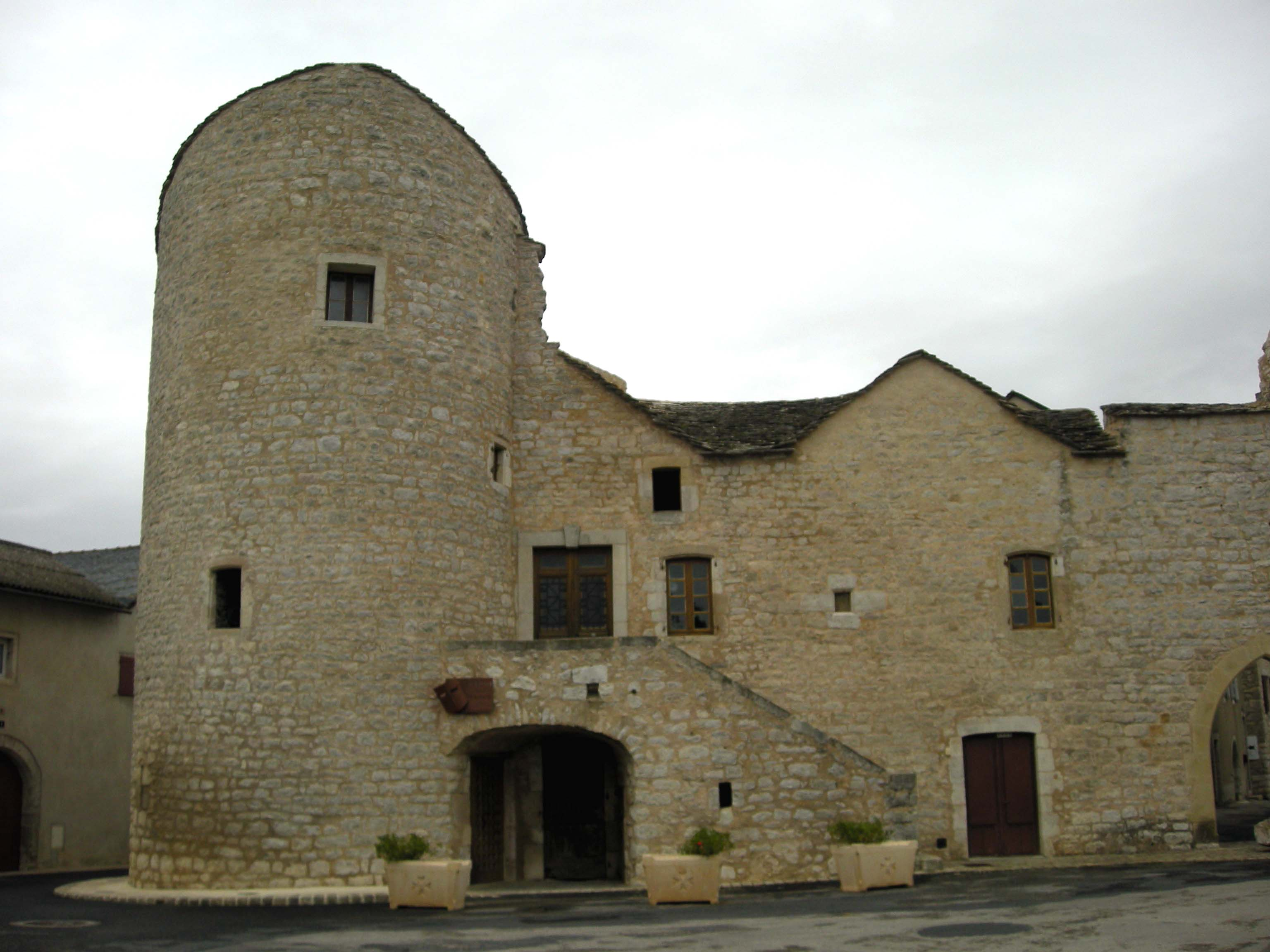 City walls of La Cavalerie (Aveyron)